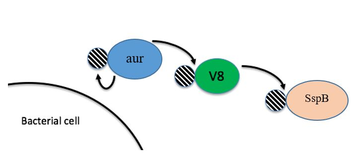 Schematic of the Staphyococcal Proteolytic Cascade